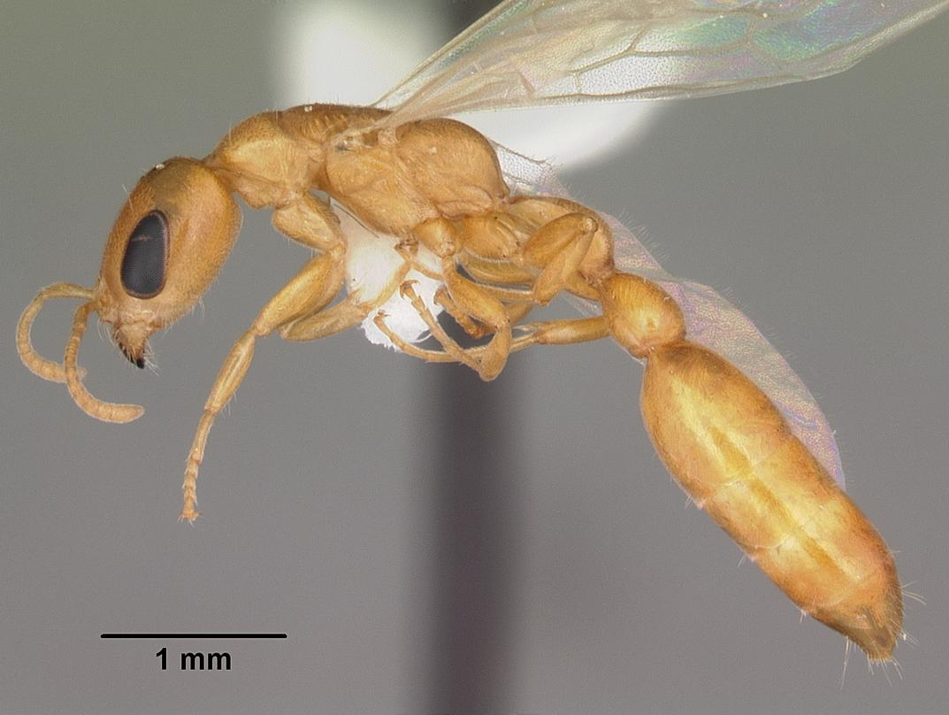 Profile view of ant Pseudomyrmex pallidus specimen casent0103866.